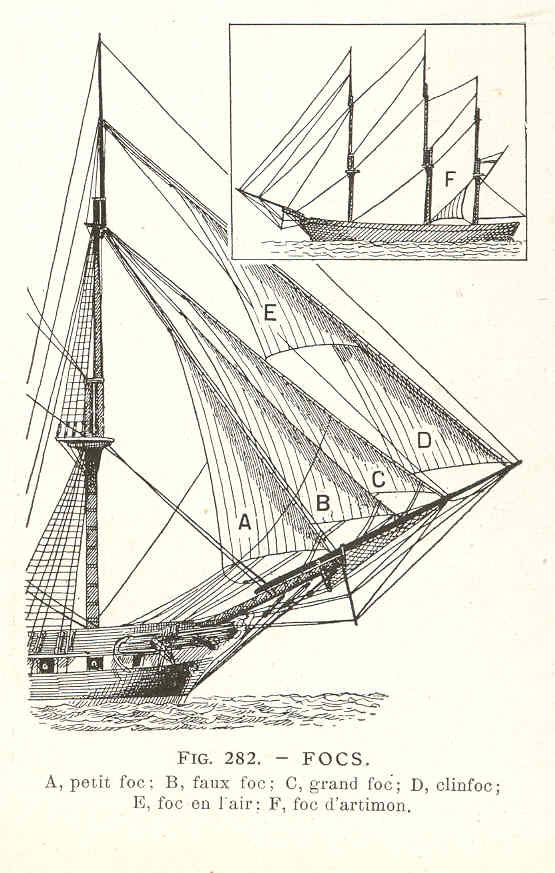 Focs a, petit foc; b, faux foc; c, grand foc; d, clinfoc; e, foc en l'air; f, foc d'artimon Subject: Sails, Masts and rigging Tag: Vessels